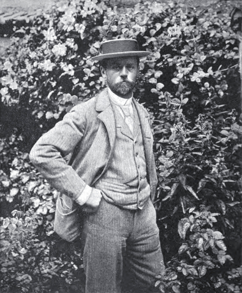 Photograph of Émile Friant by Scribner's Magazine.